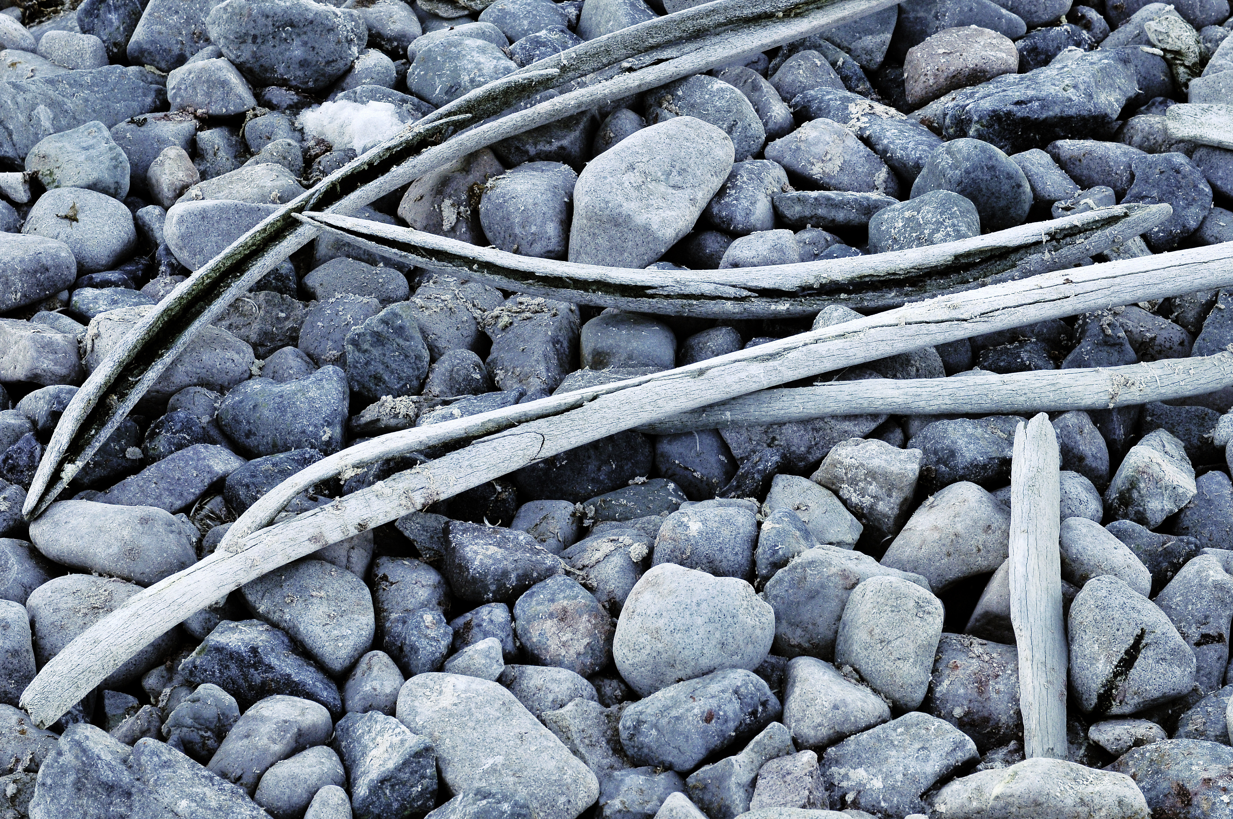 Old whalebones on the beach. Cuverville Island, Danco Coast, Antarctica